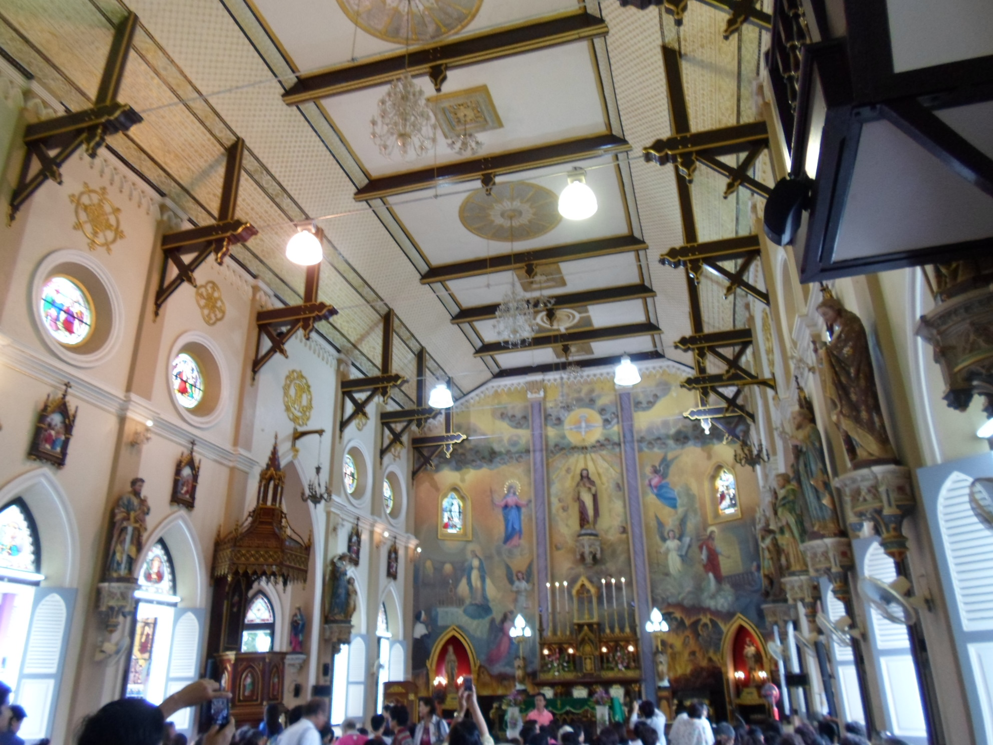 Wat Phra Haruethai, Wat Phleng District, Ratchaburi